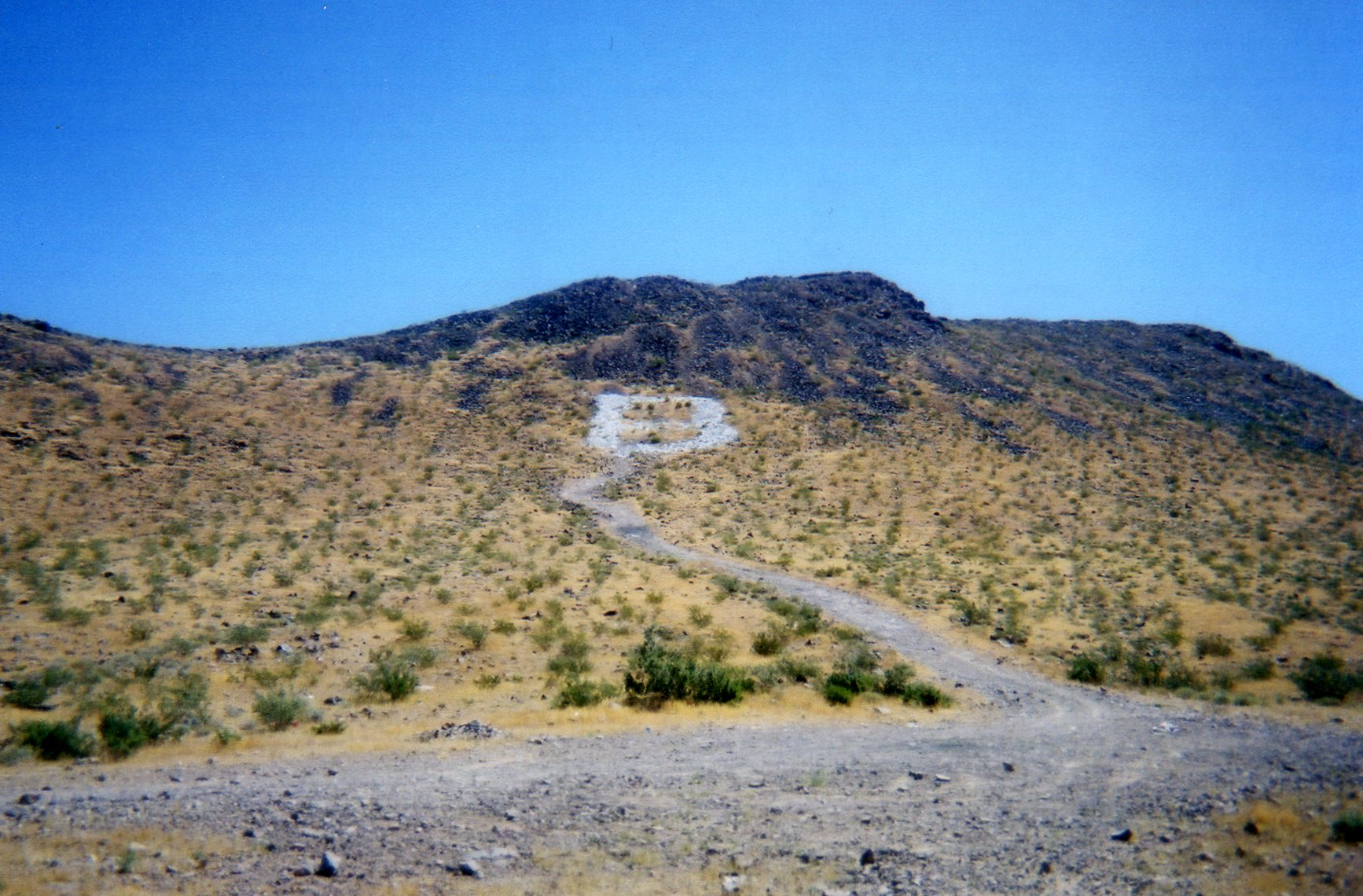 This was taken in May 2005. This "B" mountain could be seen from much of Henderson. The "B" stands for Basic High School. The mountain is about 2,550 feet in elevation at its highest point. The lat/long coordinates are: (36.0450, -114.9255)